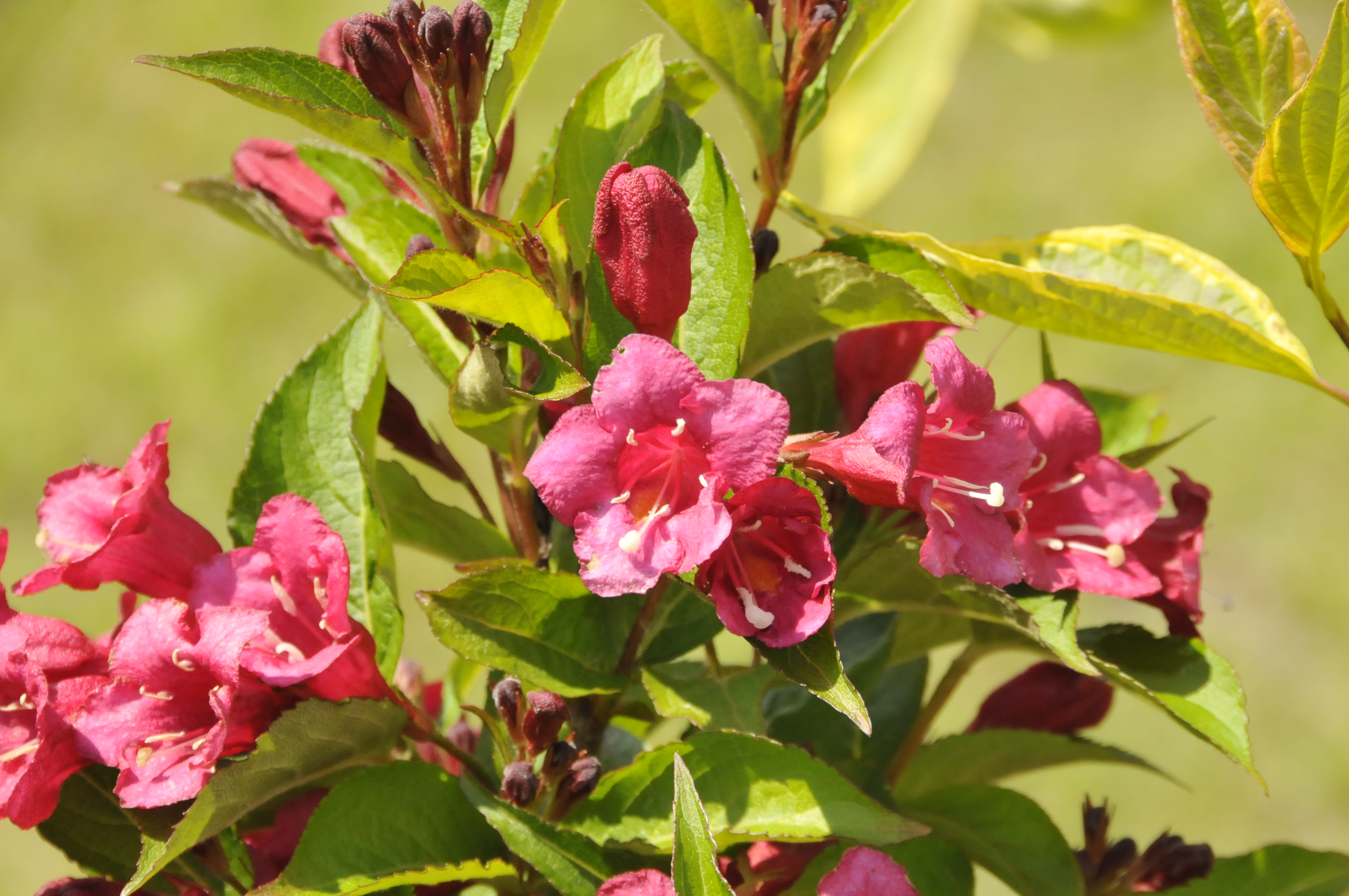 Weigela